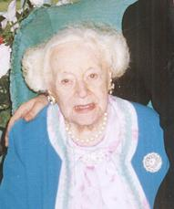 Barbara Cartland, Randy Bryan Bigham, 2000.